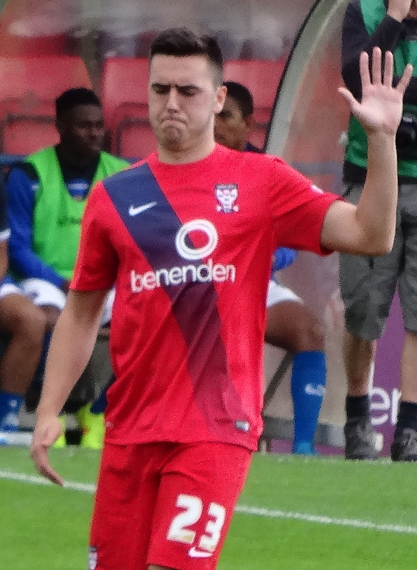 Rhys Turner playing for York City against Carlisle United at Bootham Crescent, York on 19 September